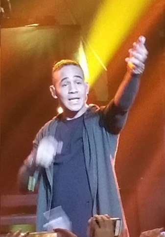 Richard Camacho (Dominican Republic), member of CNCO boy band (First winners of Univision music reality show La Banda), debut solo concert Jan. 30, 2016, at the Fillmore Miami Beach, Jackie Gleason Theater.